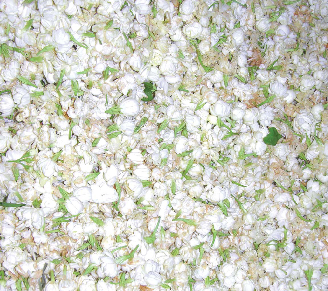 Jasmine blossoms; close-up. From the Fujian Mountains, China